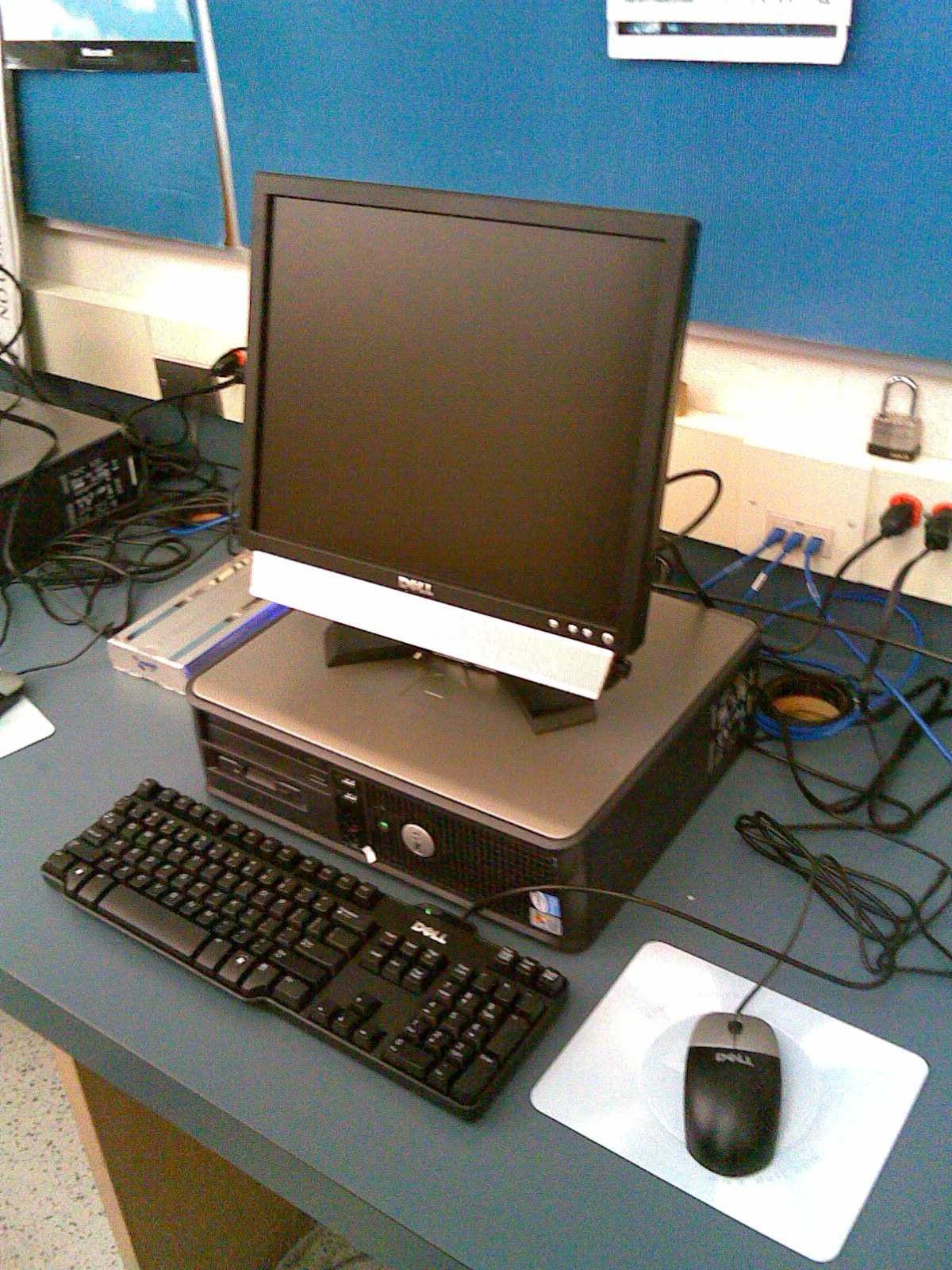 The board is upgrading our computers. I think this is a Dell OptiPlex GX620 (DT) with a Pentium D processor. They're pretty decent computers, I think the money could have been better spent elsewhere.